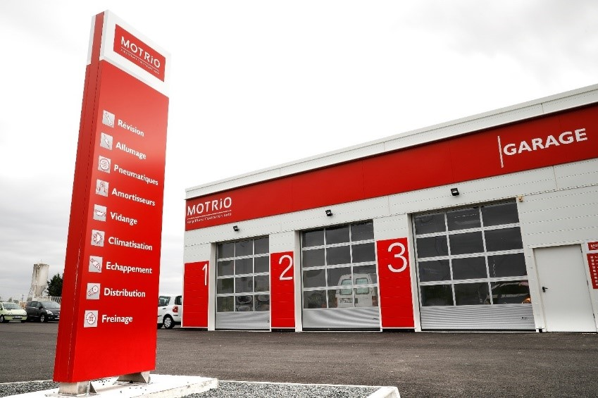 Motrio car service